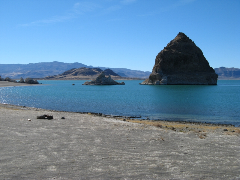 The Pyramid island, namesake of Pyramid Lake, Nevada.